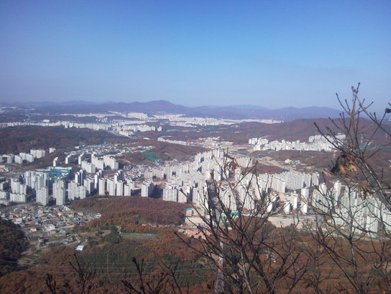 Gyeonggi-do Yongin-si 'Seokseong' mountain(471.3m)